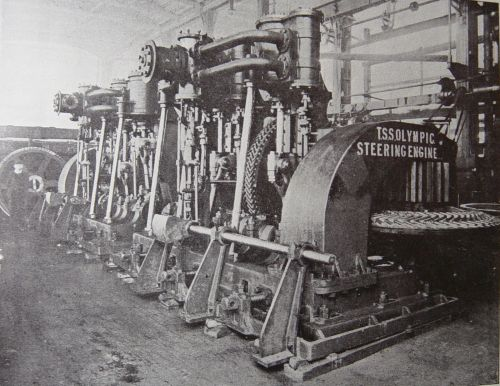 Steering engine of RMS Olympic, before installation. The Olympic was launched in October 1910, so this picture was taken earlier. The Titanic used a similar unit.